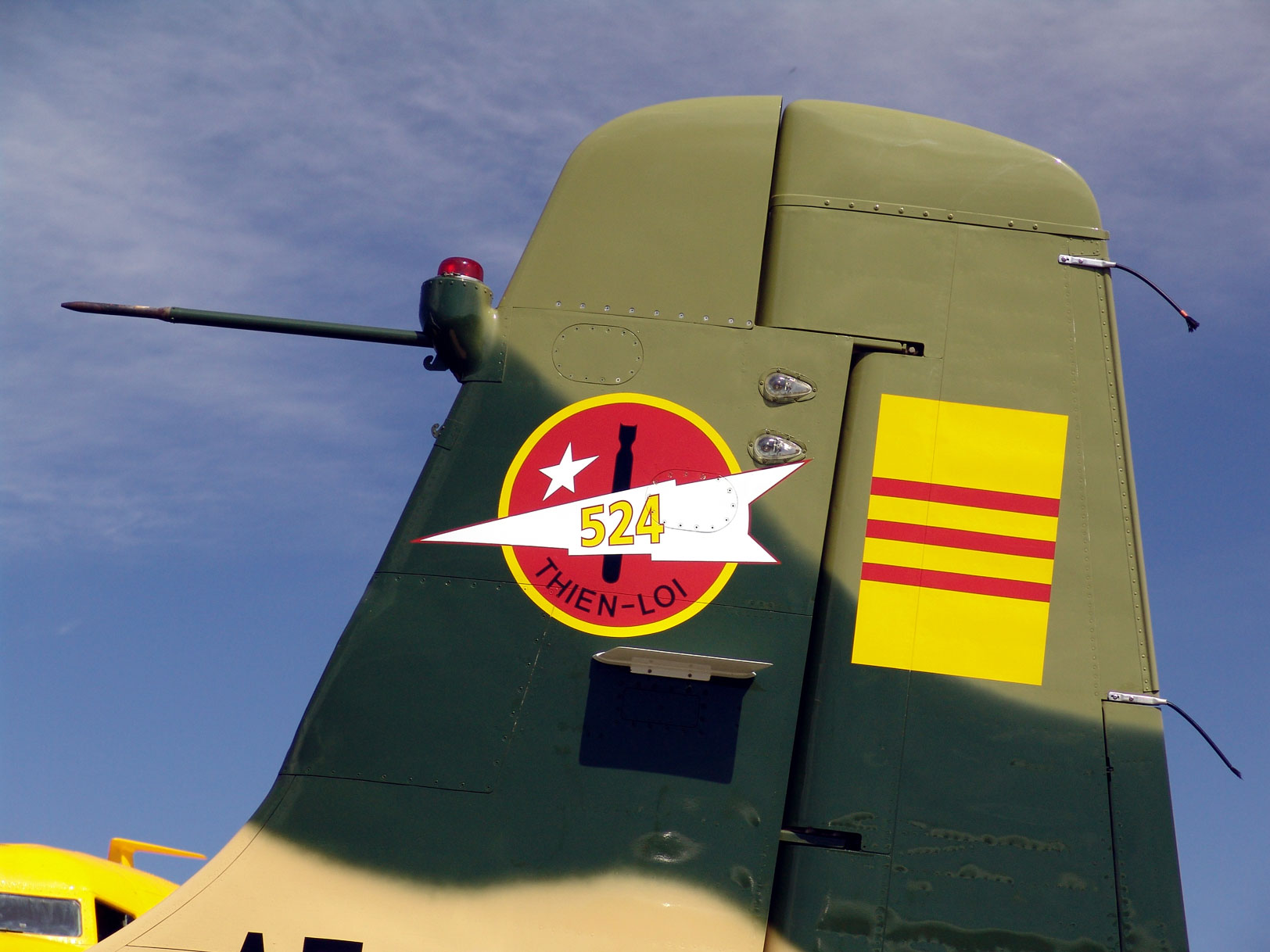 Rudder of a Douglas A-1E Skyraider. The aircraft is the A-1E Bureau Number 132683, which is owned by Lud J. Corrao (Carson City, Nevada, USA). It is painted as "AF 132-683" of the South Vietnamese Air Force (VNAF), civil registration N39147. Taken at the Reno Air Races in 2005, Reno Stead Airport.